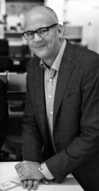 Mark Halperin, Mark McKinnon, and John Heilemann